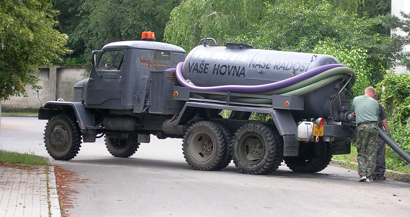 Husinec-Řež, Prague-East District, Central Bohemian Region, the Czech Republic. A gully emptier.